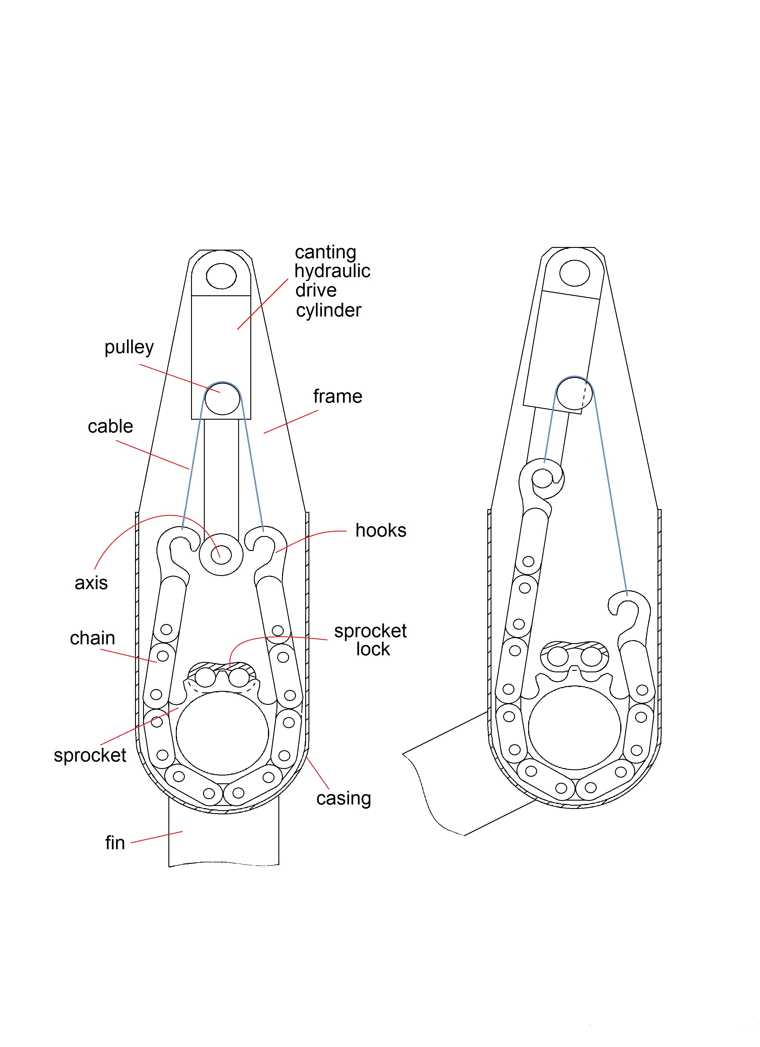 canting keel with chain and fin inclination 90 deg or more